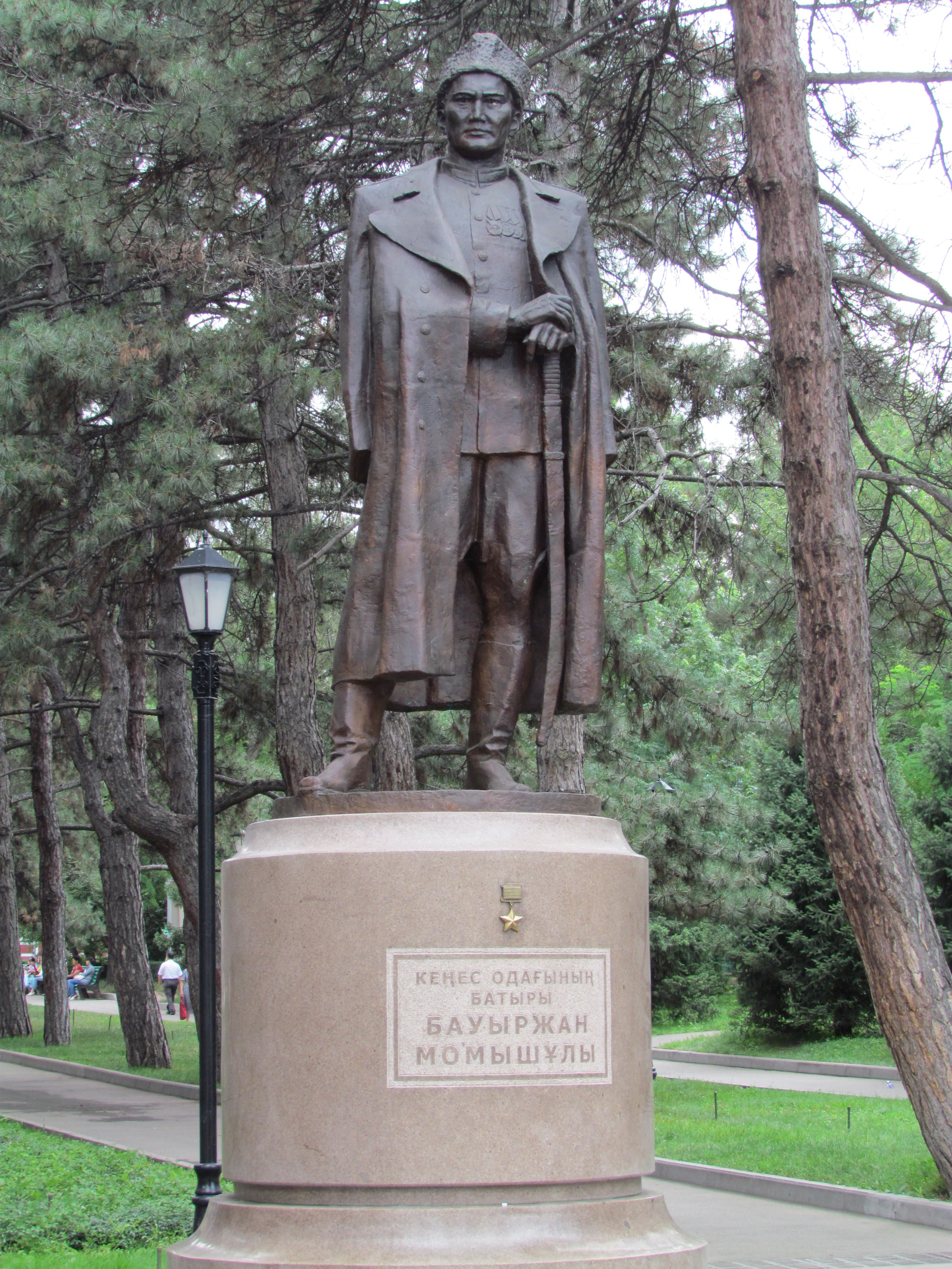 Bauyrzhan Momyshuly Monument in Almaty